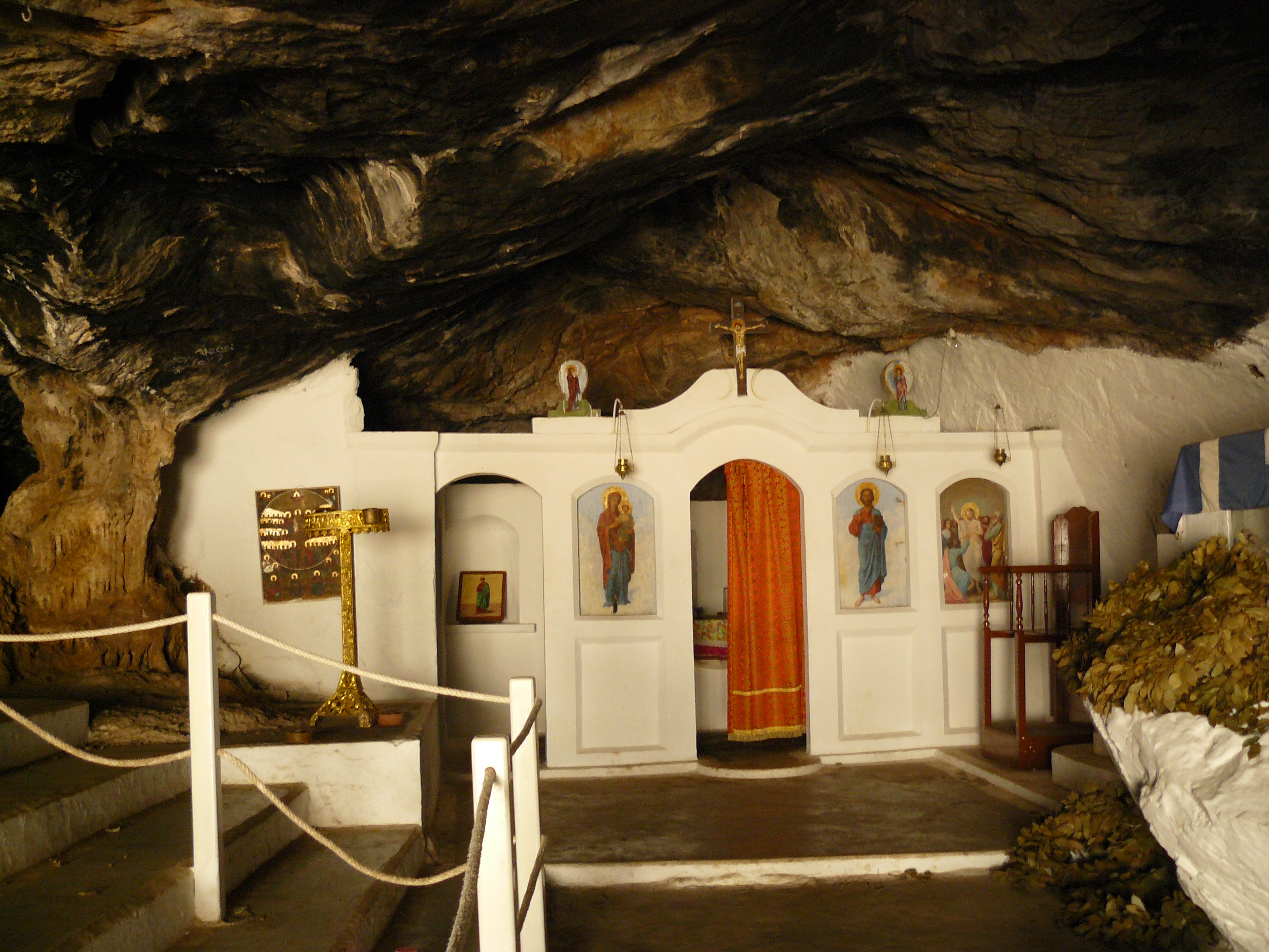 Iconostasis of church of St. Thomas, Cave of Milatos, Lasithi, Crete.